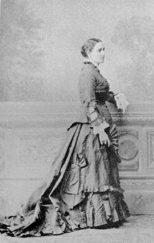 photo of Dame Sarah Elizabeth Siddons Mair (1846–1941)